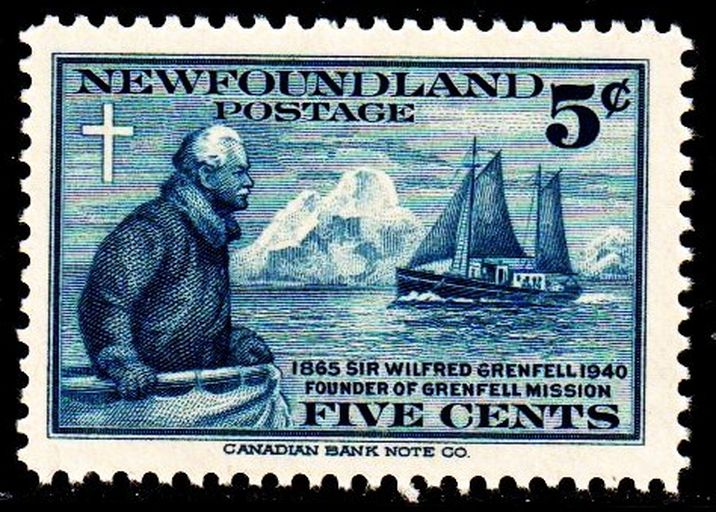 Newfoundland Postage stamp, 1941 issue, showing Wilfred Grenfell (1865-1940), a medical missionary to Newfoundland and Labrador